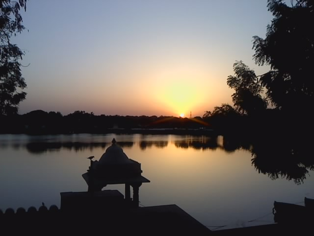 Kankaria Lake, early morning, sunrise around 5.30am